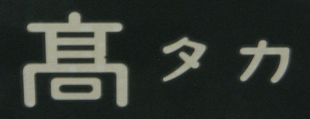 Symbol of JR East Takasaki Rolling Stock Center, marked on its rolling stock